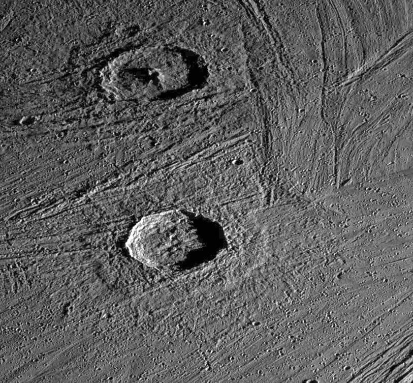 Fresh impact craters on the grooved terrain on Ganymede by Galileo. The crater to the north is Gula (38 kilometers km in diameter). It has a distinctive central peak. The crater to the south is Achelous. It is 32 km in diameter. A characteristic feature of both craters, almost identical in size, is the "pedestal" - an outward-facing, relatively gently sloped scarp that terminates the continuous ejecta blanket. Similar features may be seen in ejecta blankets of Martian craters, suggesting impacts into a volatile (ice)-rich target material. Furthermore, both craters appear crisp and feature terraces. Gula has a prominent central peak; Achelous instead may show the remnant of a collapsed central peak or a central pit that is not fully formed. On lower-resolution images taken under higher sun illumination angle, both craters are shown to have extended bright rays, especially Achelous, which demonstrates that these two craters are younger than the respective surrounding landscape.